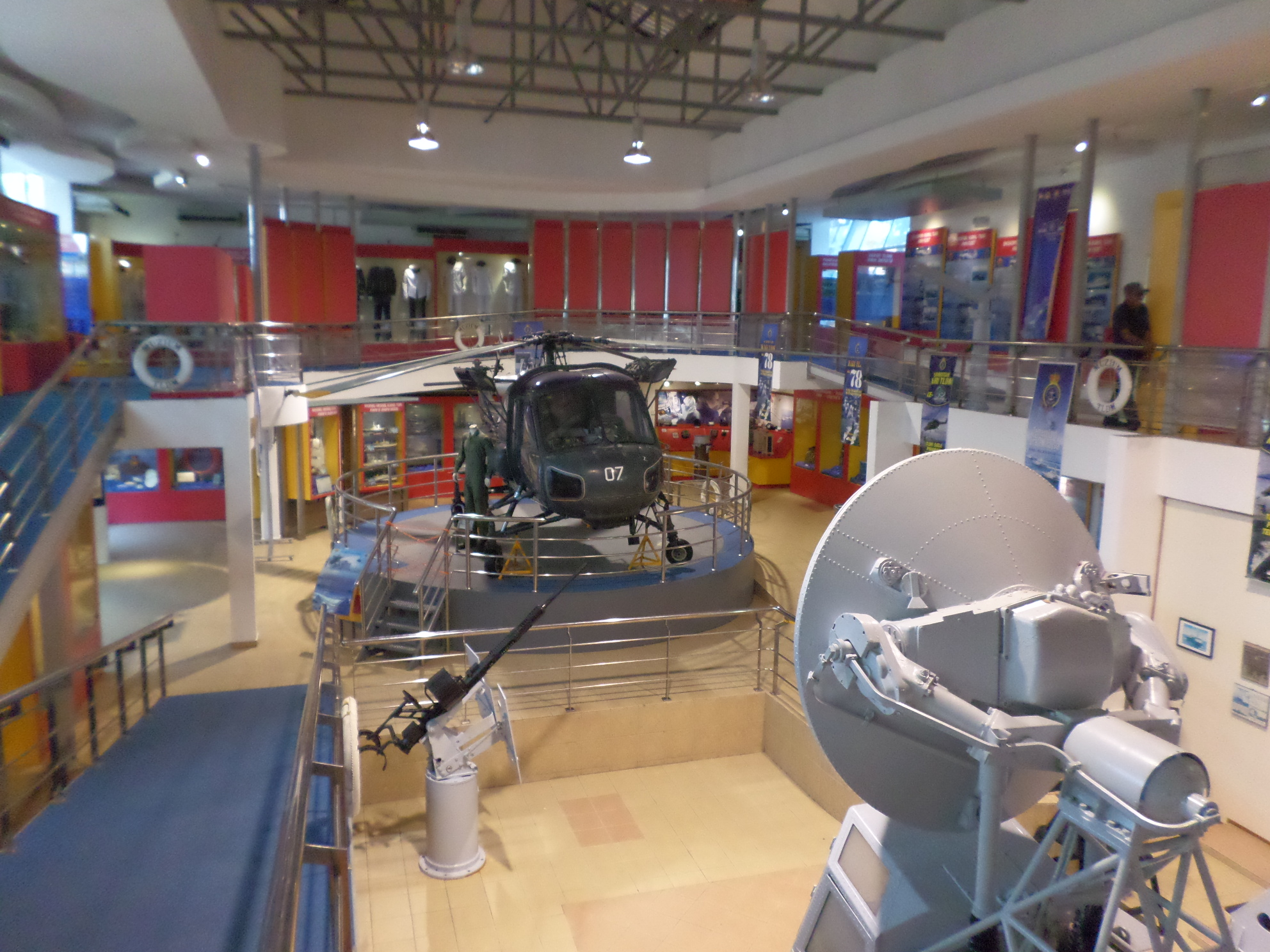 Royal Malaysian Navy Museum, Malacca Town, Malacca, MalaysiaBahasa Melayu: Muzium Tentera Laut Diraja Malaysia, Bandaraya Melaka, Melaka, Malaysia